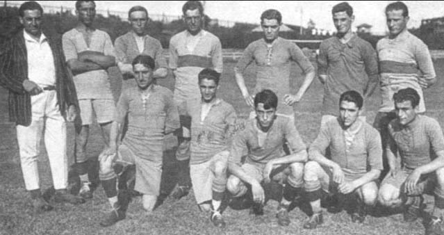 The Boca Juniors team that won its first championship in 1919. (standing): Ortega, Busso, Elli, López, Tesorieri, Cortella. (seated): Calomino, Bosso, Garassini, Martín, Miranda.